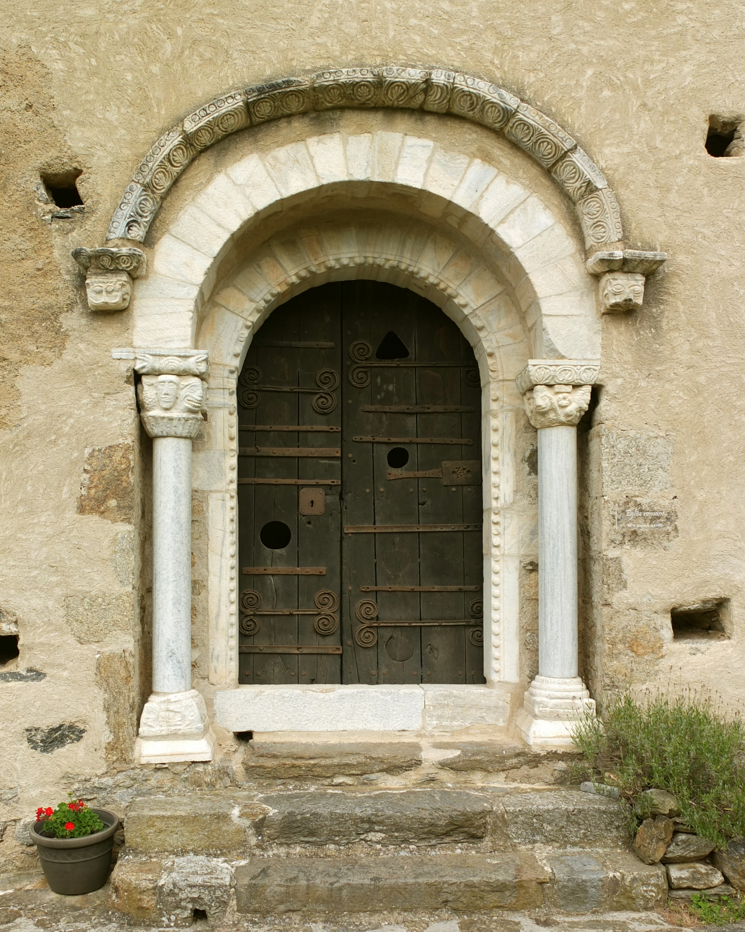 Portal of Romanesque chapel Santa Maria del Vilar, 11th century, Villelongue-dels-Monts, France.